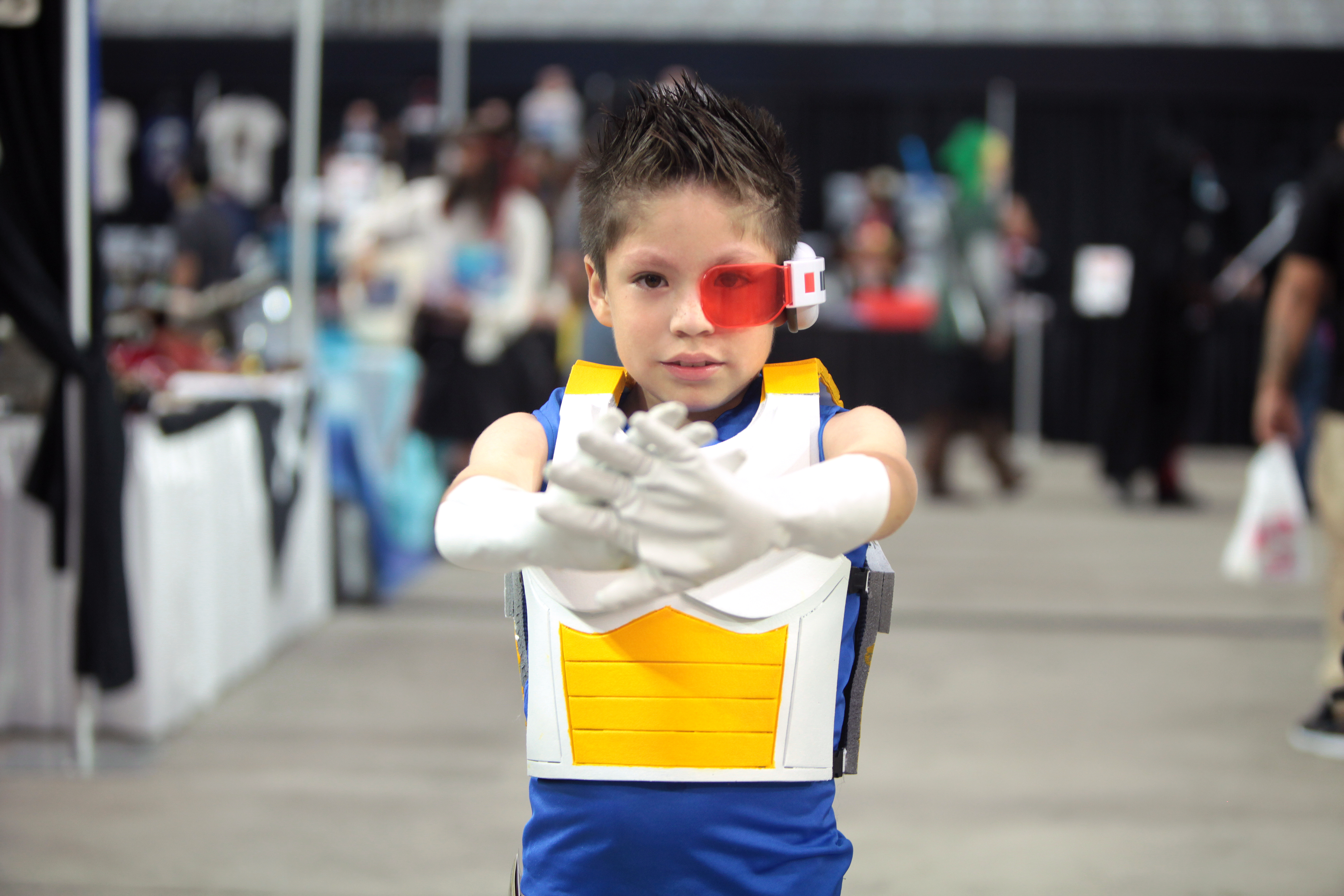 Kid Vegeta cosplayer at the 2015 Phoenix Comicon Fan Fest at the University of Phoenix Stadium in Glendale, Arizona.